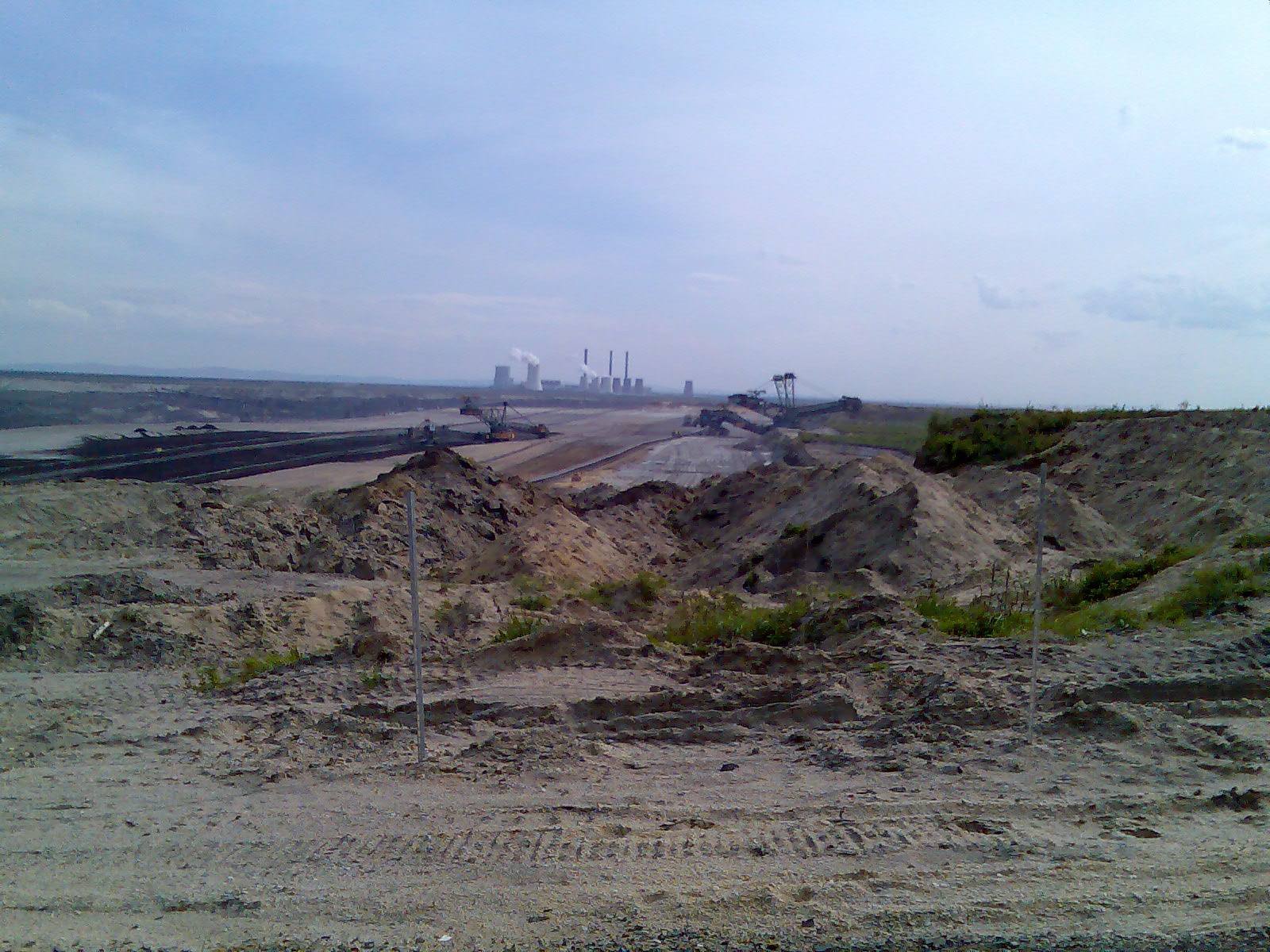 Boxberg power station (Kraftwerk Boxberg) and Nochten lignite surface mine (Tagebau Nochten)